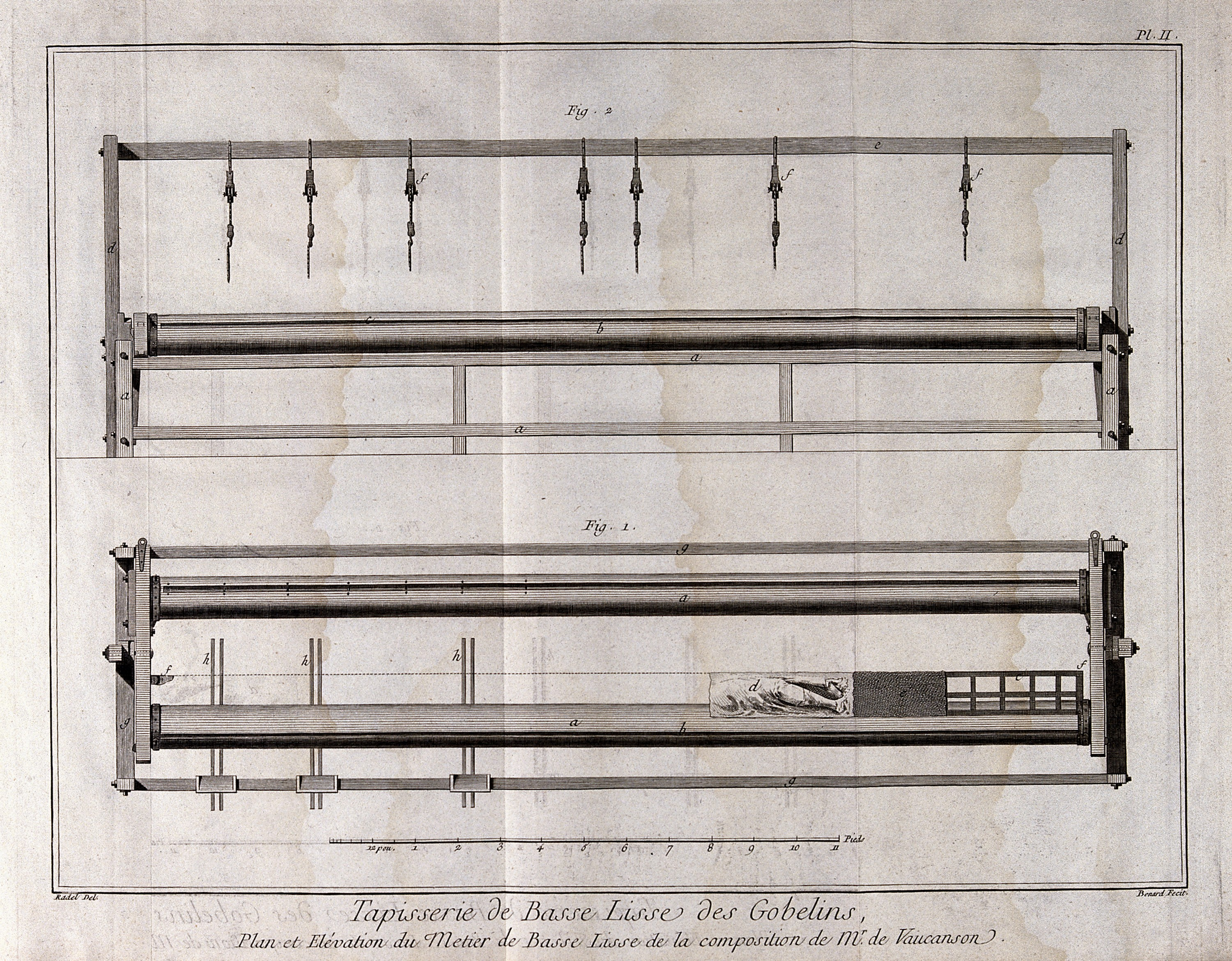 Textiles: tapestry weaving, a loom in elevation (top), and in plan (below), with part of a tapestry. Engraving by R. Benard after Radel. Iconographic Collections Keywords: Jacques de Vaucanson; Robert Bénard; Radel